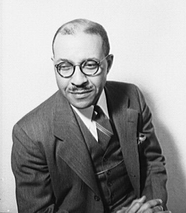 Charles Spurgeon Johnson, sociologist and first black president of Fisk University